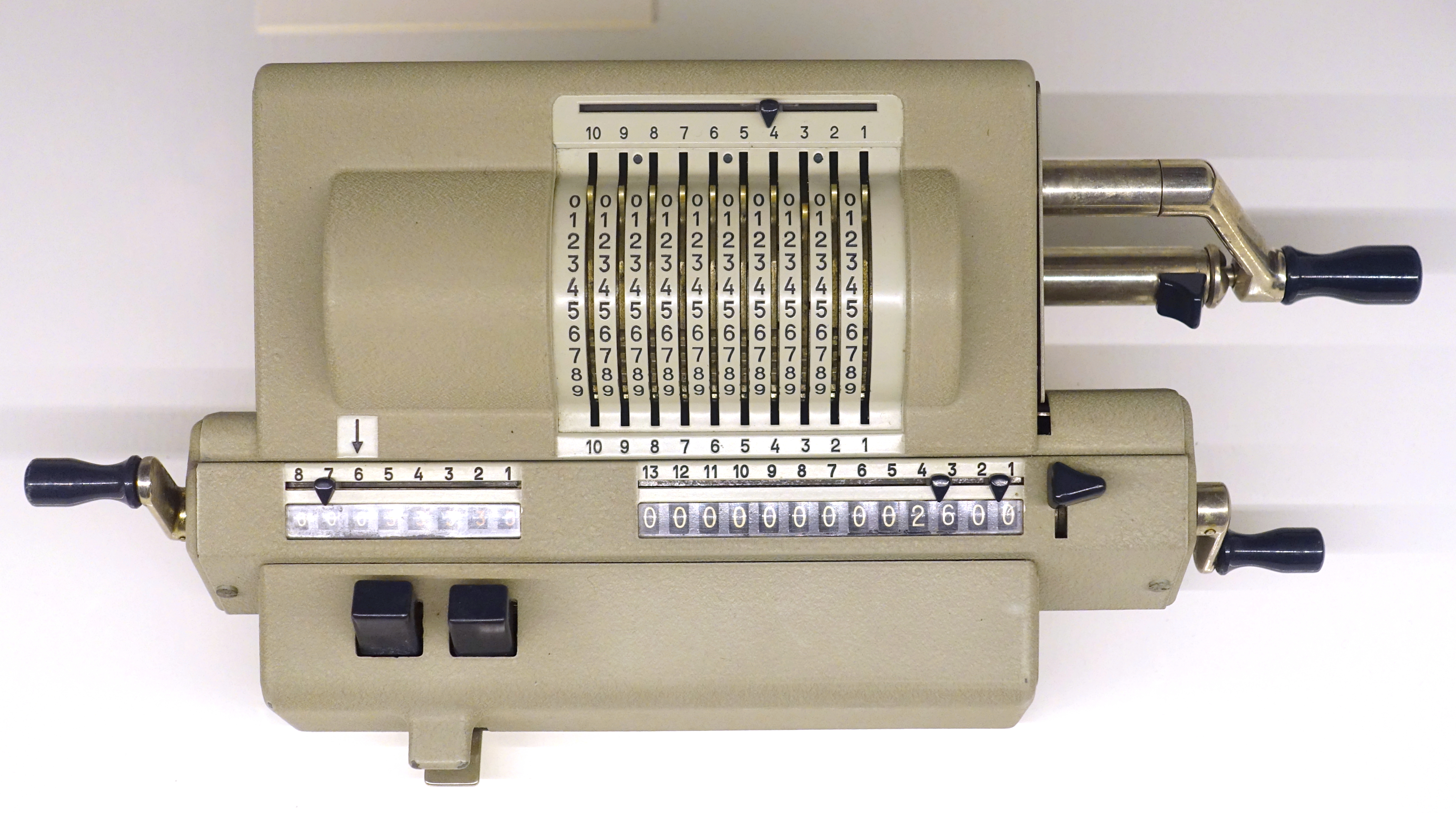 Exhibit in the Tekniska museet, Stockholm, Sweden. This work is old enough so that it is in the public domain.